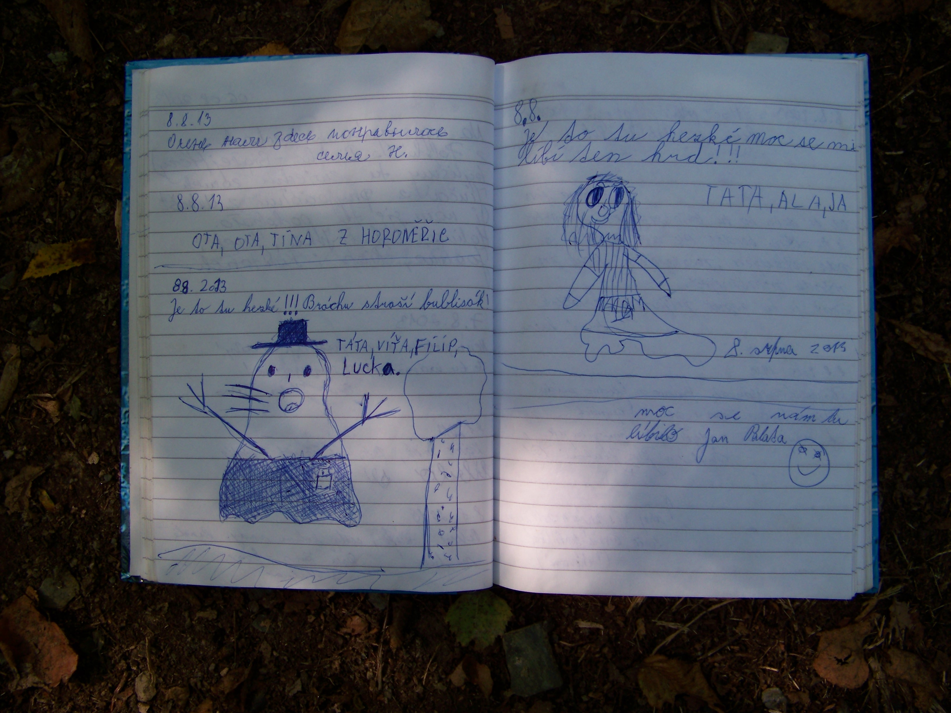 Běleč, Kladno District, Central Bohemian Region, Czech Republic. Ruin of the Jinčov (Jenčov, Jenišov) Castle, a guestbook.